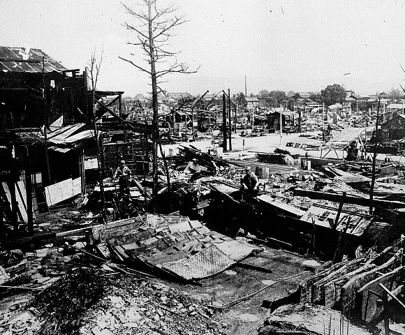 Odawara after the 1945 air raid